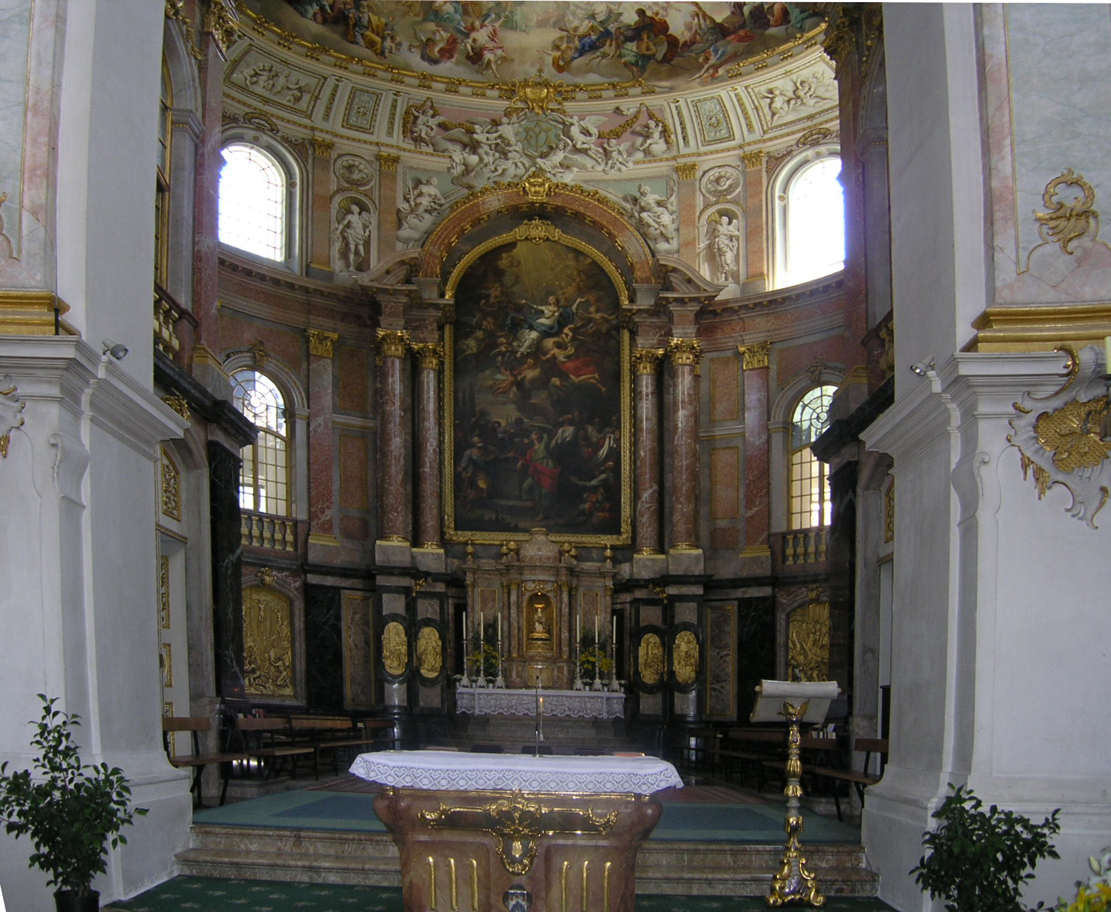 The monastery church of Ettal Die Klosterkirche Ettal Date: 19 July 2006